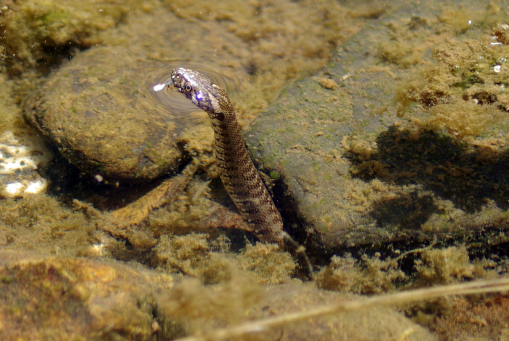 Viperine water snake (Natrix maura). River Manzanas, Zamora (Spain).